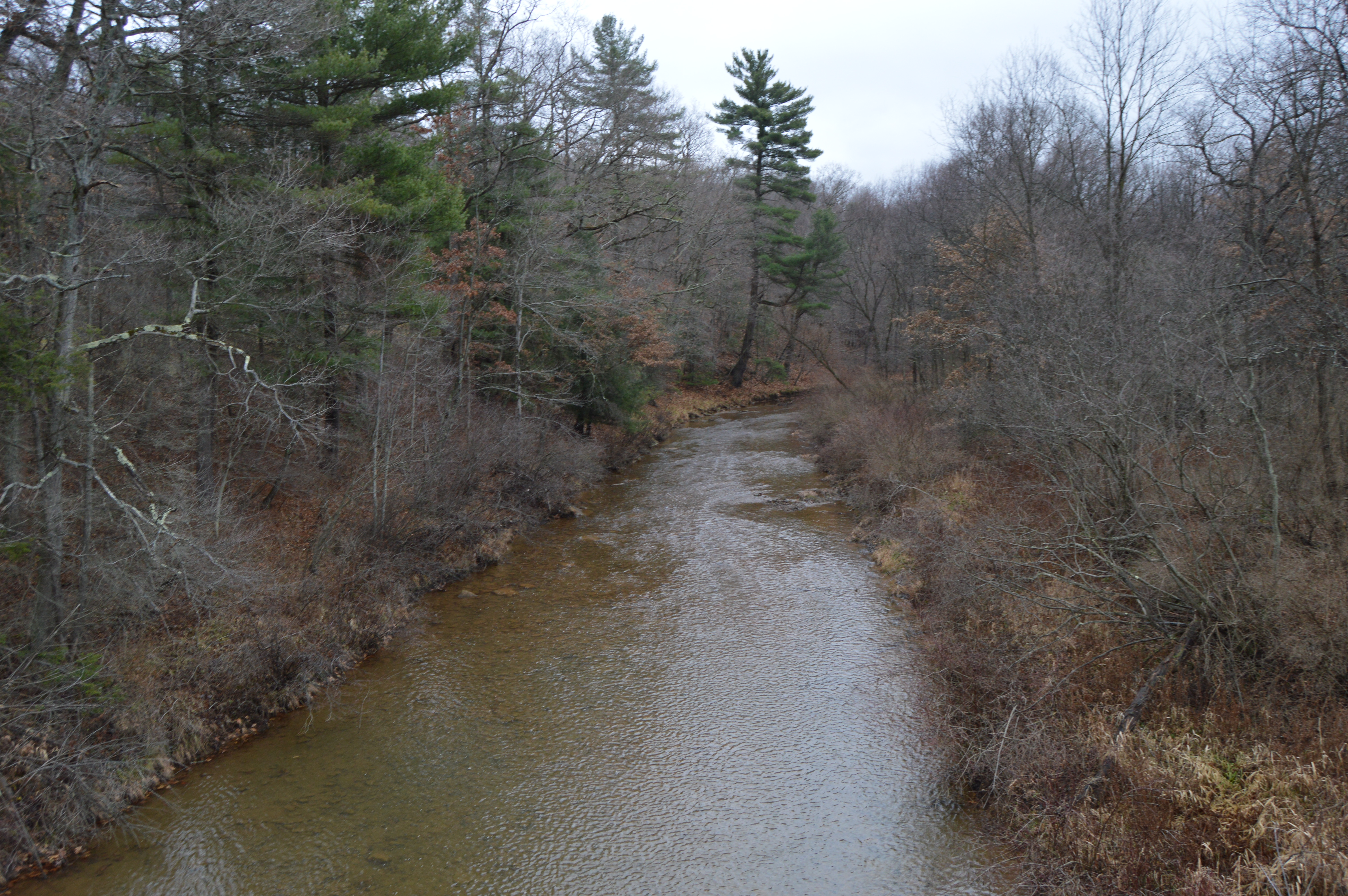 Looking upstream along Piney Creek in Monroe Township, Clarion County, Pennsylvania, United States, seen from the Reidsburg Road bridge west of Limestone.